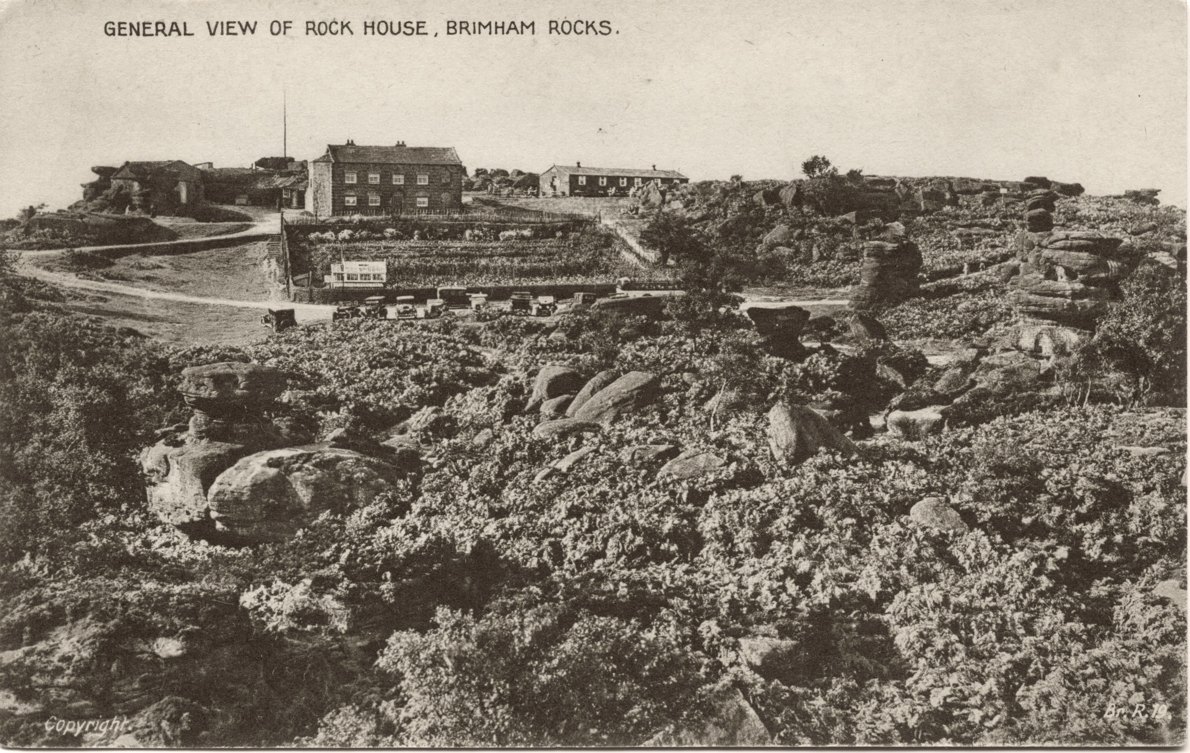 Vintage postcard of Brimham Rocks, North Yorkshire, England. Showing Rock House, with the wooden Tea House beside it.